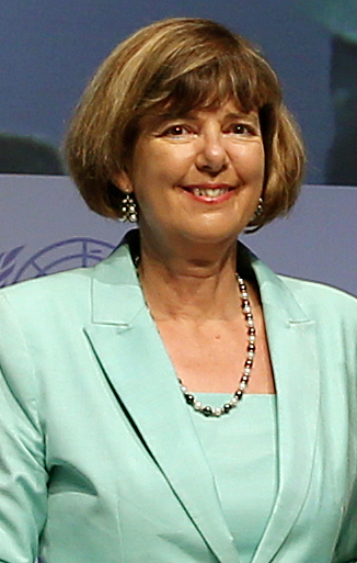 2014 UN Public Service Forum, Day and Awards Cermony Improving the Delivery of Public Services Winner First Place South Africa June 26, 2014 Kintex, Goyang-si, Gyeonggi-do Ministry of Culture, Sports and Tourism Korean Culture and Information Service ( Official Photographer: Jeon Han This official Republic of Korea photograph is licensed as free content, so while restrictions such as personality or privacy rights may apply, in general, manipulations are allowed. If you want a photograph without a watermark, you may ask via Flickr e-mail. 2014 UN 공공행정 포럼 및 시상식 2014-06-26 경기도 고양시 킨텍스 문화체육관광부 해외문화홍보원 코리아넷 전한